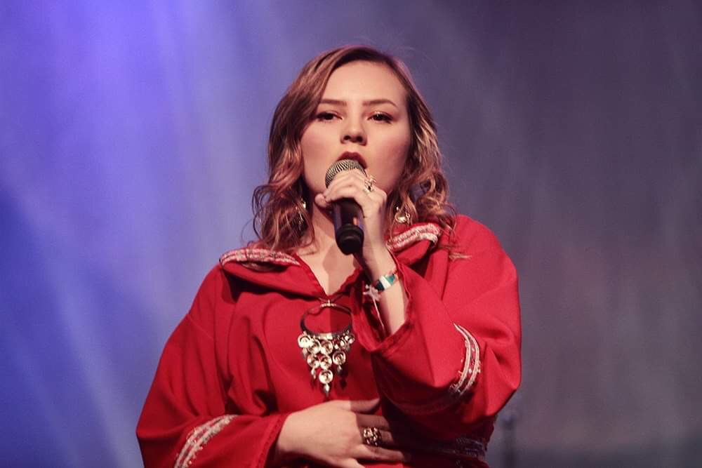 no